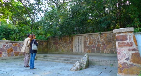 Tomb of Musician A-Bing (Hua Yanjun)